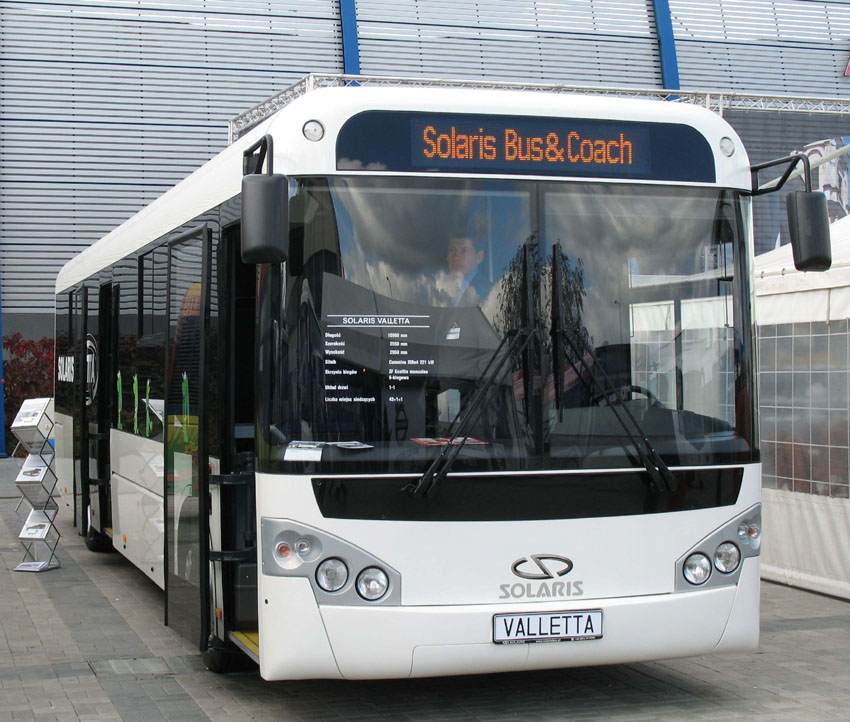 Solaris Valletta intercity bus in Kielce, Poland. Built 2007. Transexpo 2007.